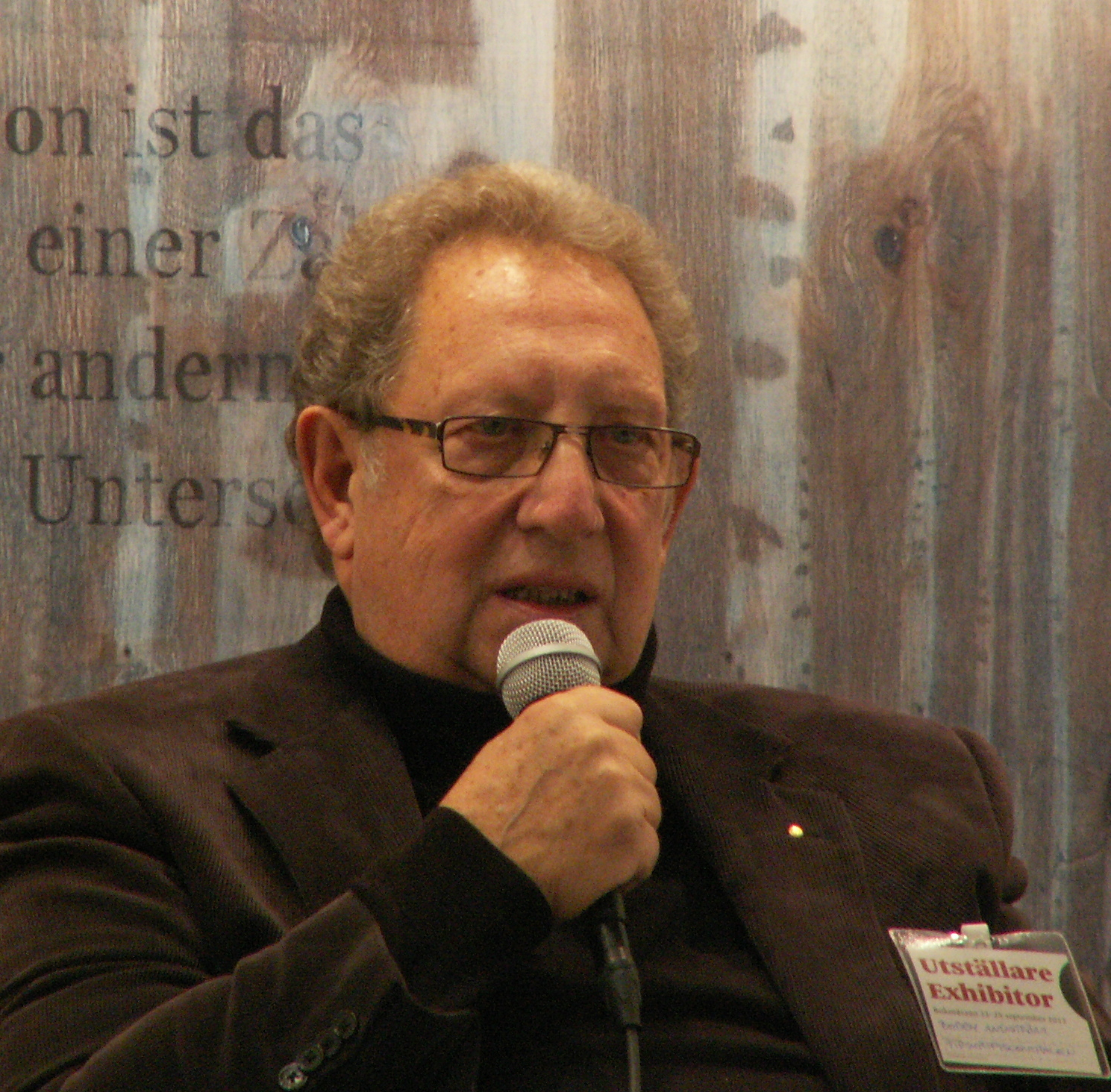 Bobby Andström at the Göteborg Book Fair, Sep. 2011.